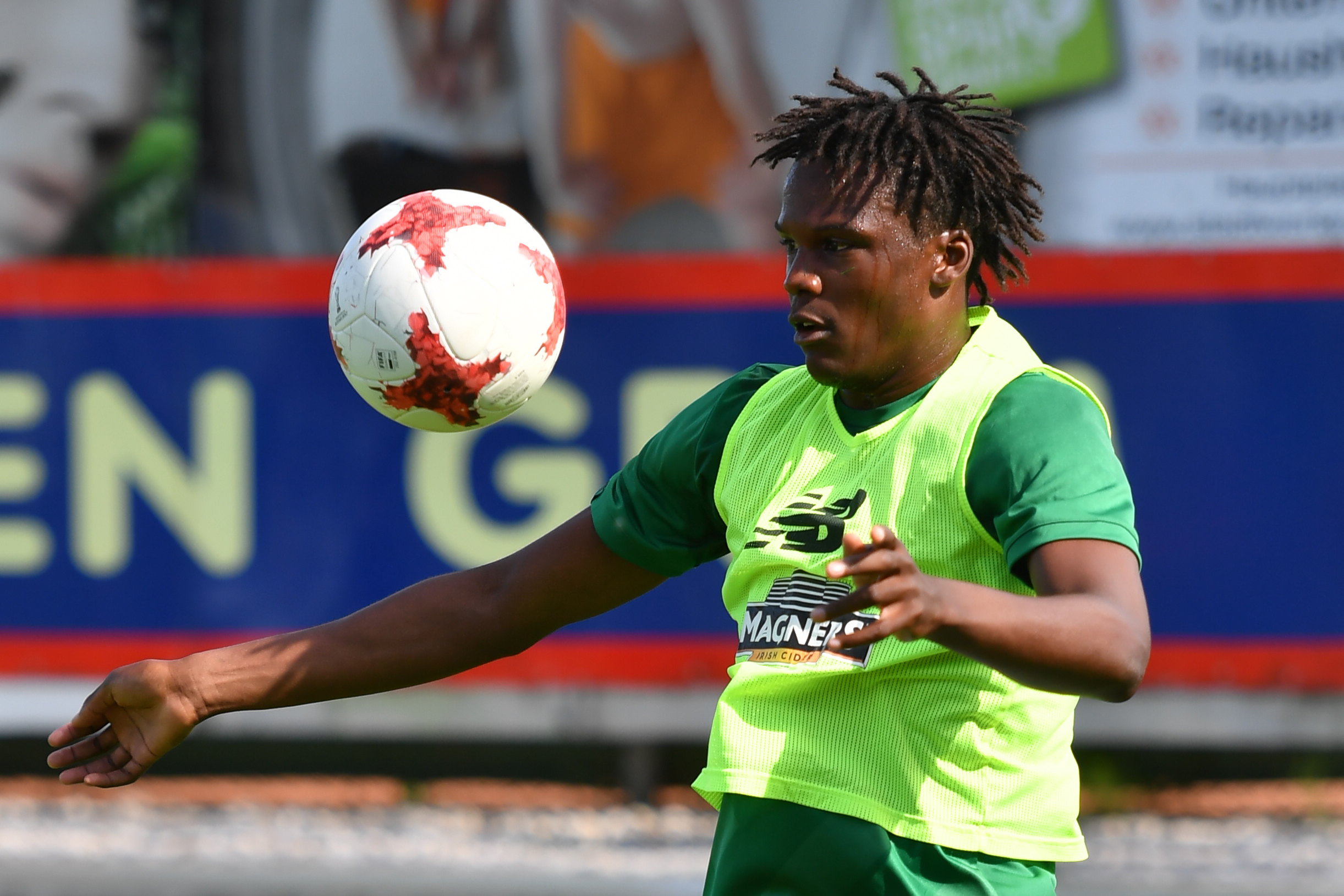 1/7/2017, Amstetten, Austria, sports, soccer, Tipico Fussball Bundesliga - preparation match SK Rapid Wien vs Celtic Glasgow. Image shows Dedryck Boyata (Celtic FC).